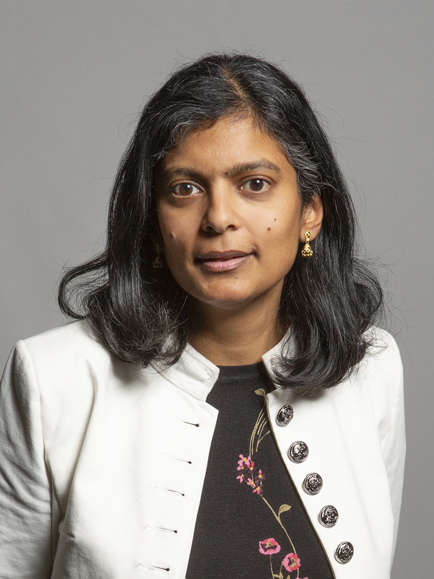 Official portrait of Dr Rupa Huq MP 3×4 portrait of Dr Rupa Huq